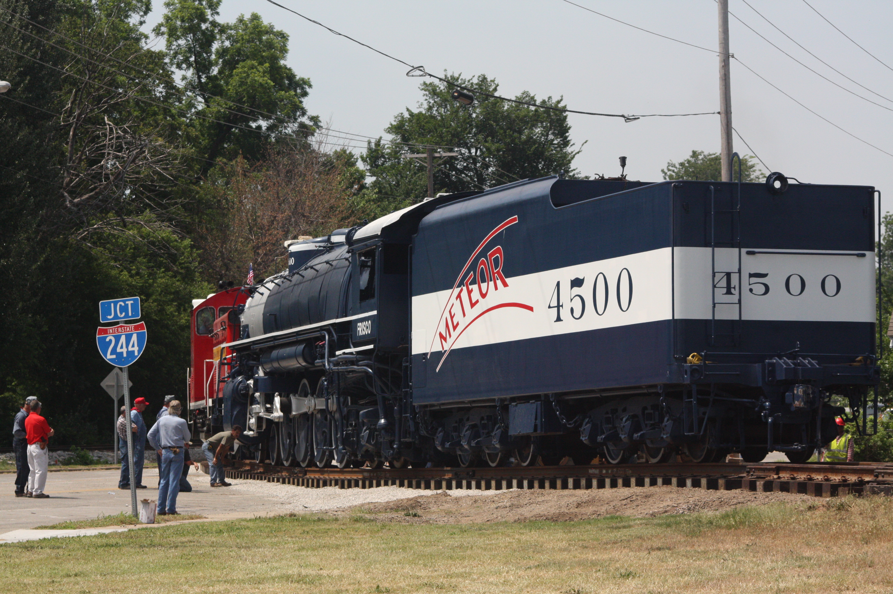 Locomotive backed into its permanent position with a Tulsa - Sapulpa - Union Railway Engine